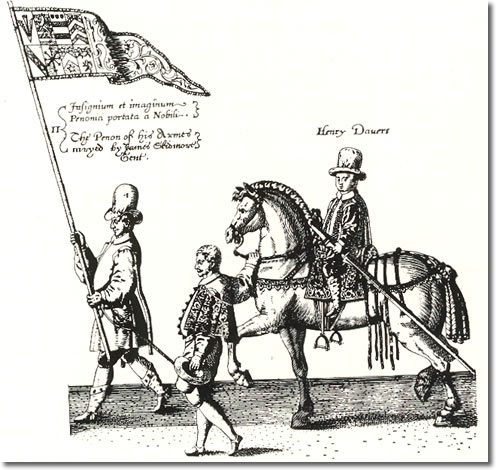 Sir James Scudamore carrying the pennant of Sir Philip Sidney, accompanied by Henry Danvers (on horseback)